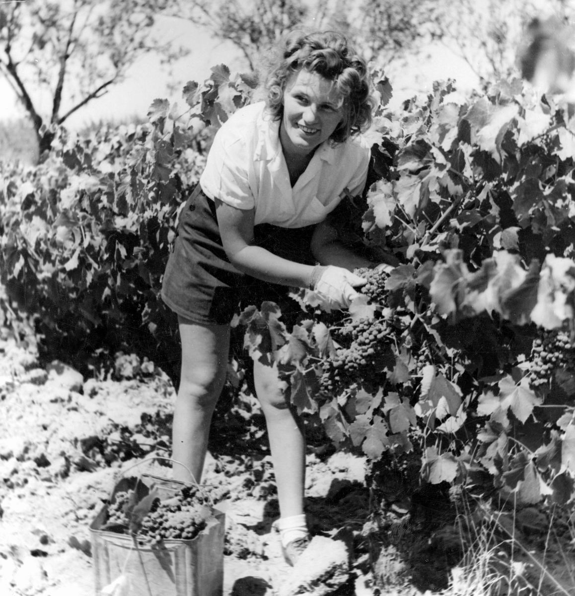 A member of the Australian Women's Land Army picking grapes at Hamilton's Vineyard at Marion, South Australia in 1943. Photographer: Smith, D. Darian